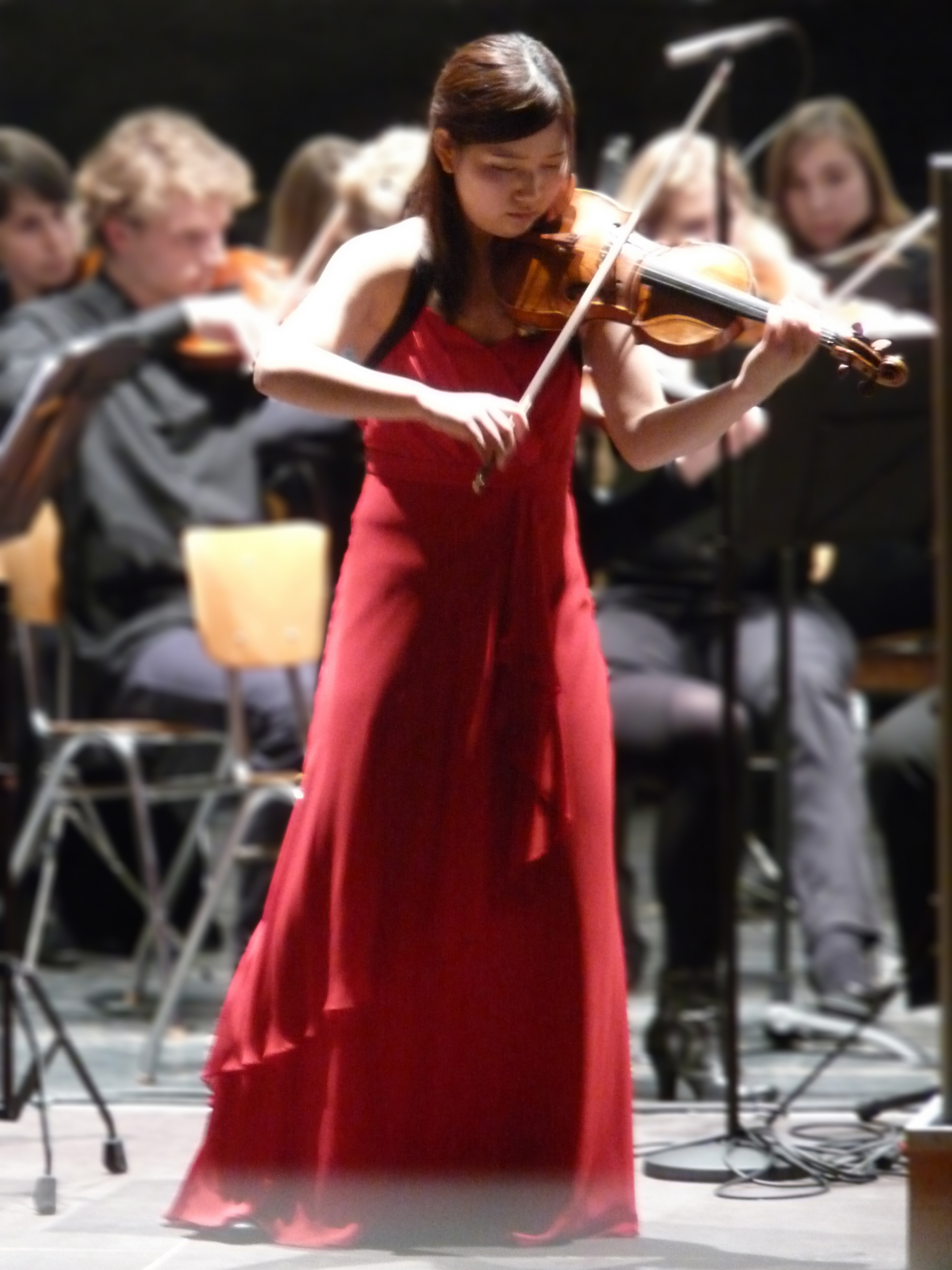 Japanese violinist Airi Suzuki with Junges Sinfonieorchester Münster (Germany)